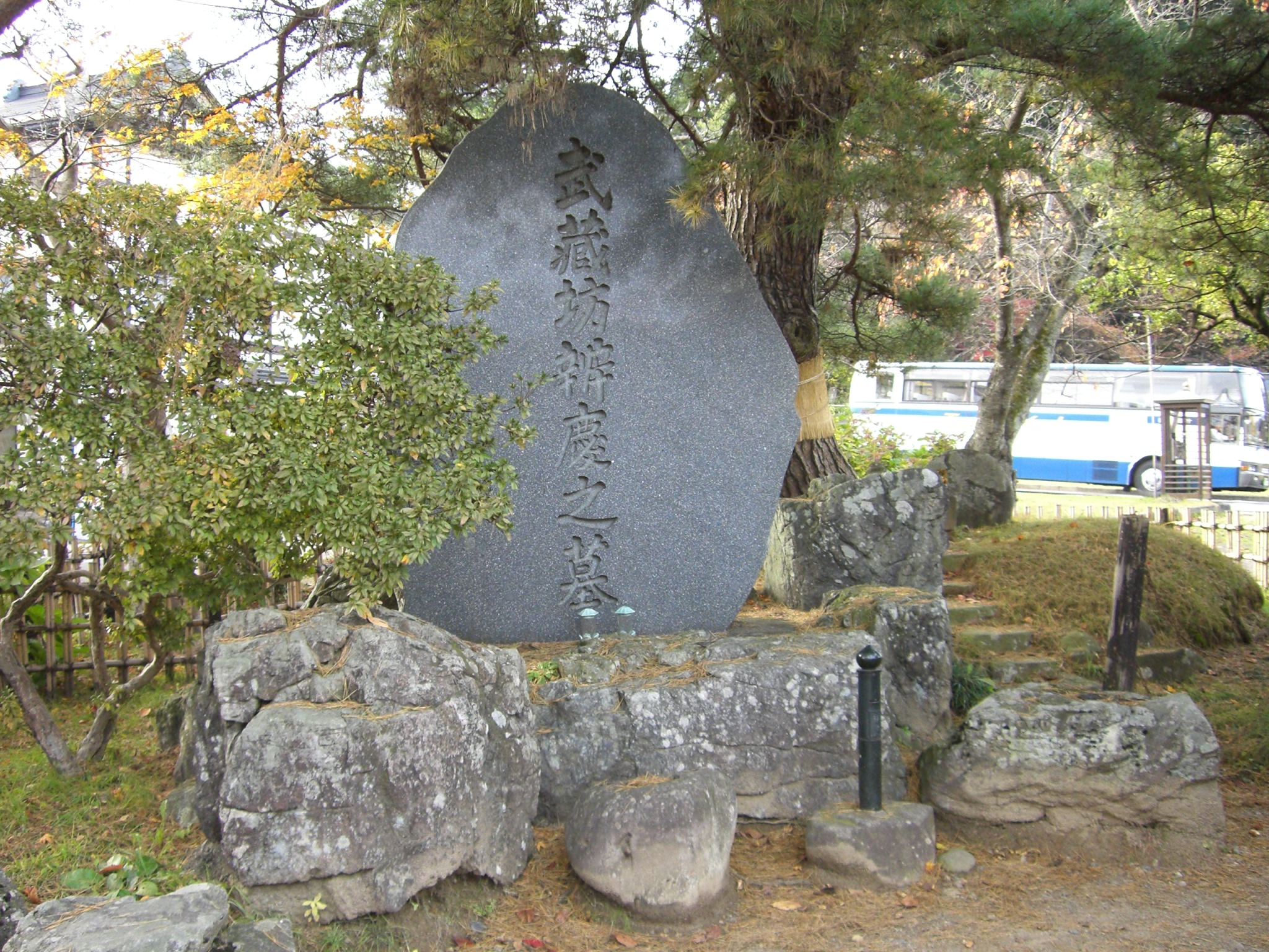 Tomb of Benkei in Hiraizumi, Iwate Prefecture